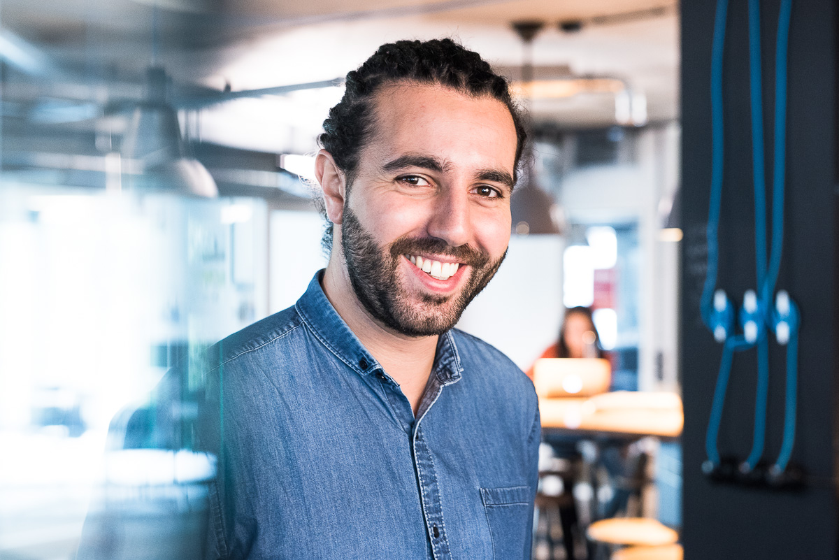 Tarek Müller (2019)